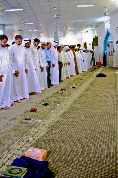 Friday prayer in Duraz Camera: Canon EOS 7D License on Flickr (2011-08-02): CC-BY-SA-2.0 Flickr tags: Bahrain